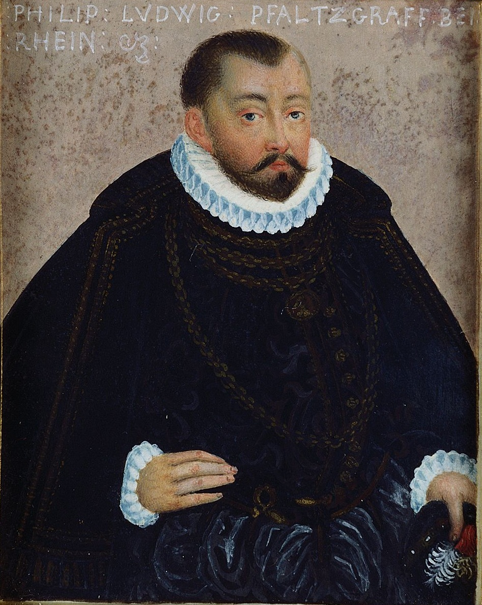 Portrait miniature of Philip Louis, Count Palatine of Neuburg. Inscribed at the top in white: PHILIP: LUDWIG: PFALTZGRAFF BEI / RHEIN.